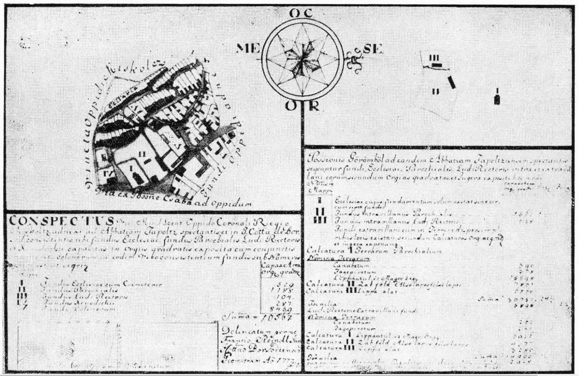 Map of Mindszent village, 1777, Miskolc, Hungary